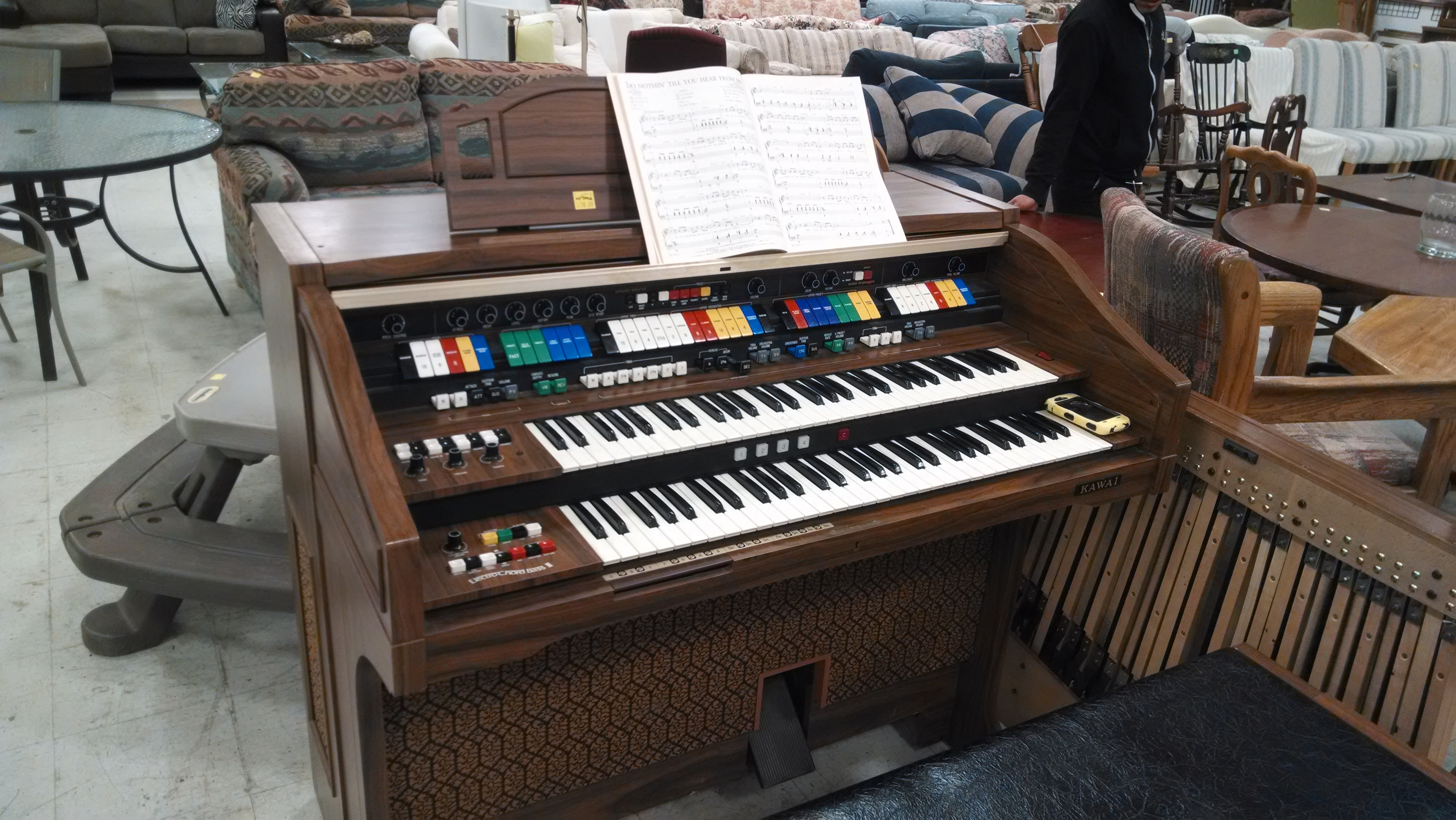 Kawai MORE series M-650 (1978, unified to Dreamatone in fall 1979) from Flickr album "staging_Camera1" by tales of a wandering youkai from Arvada, CO, US "Temporary Album"